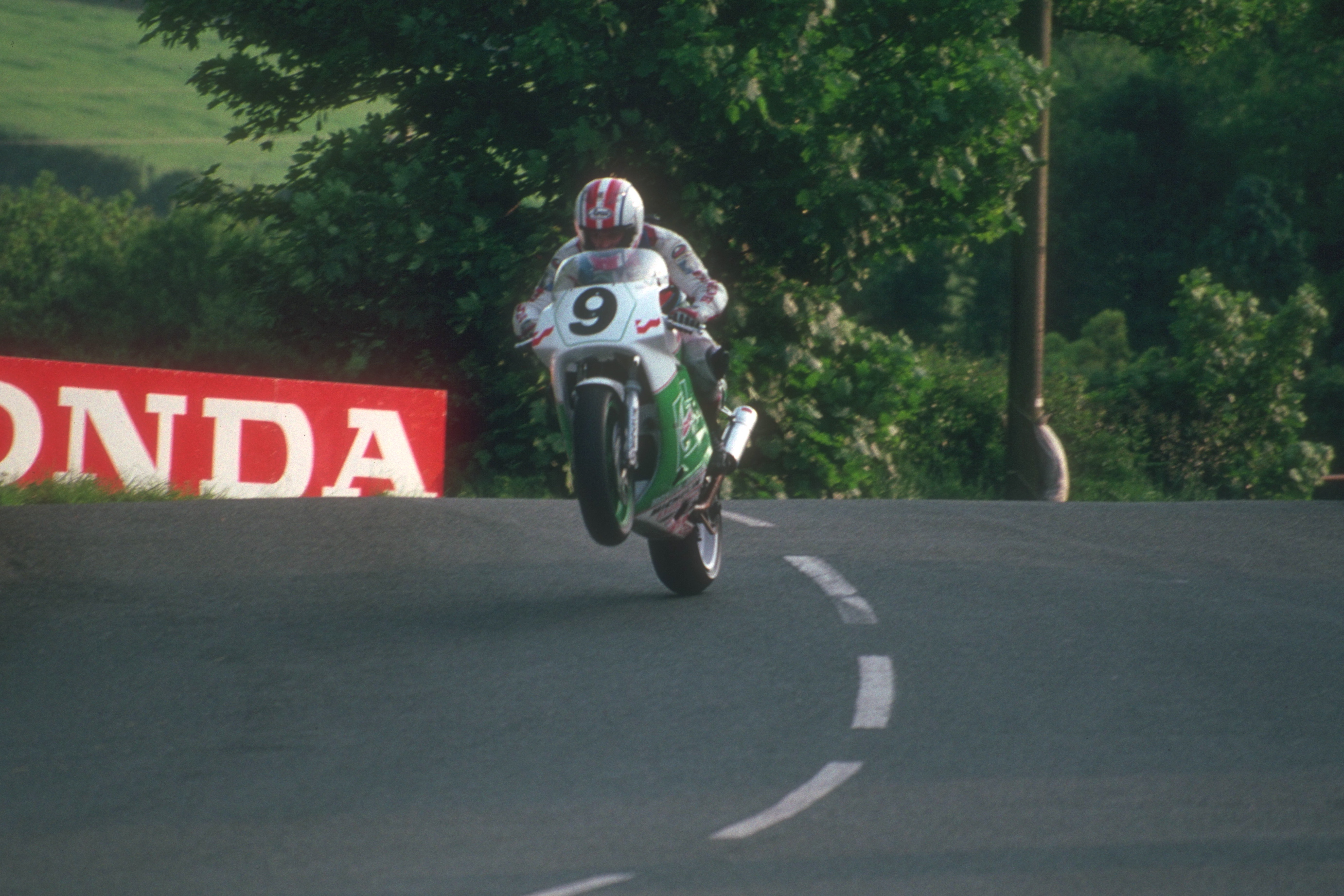 Philipp McCallen at Ballaugh Bridge